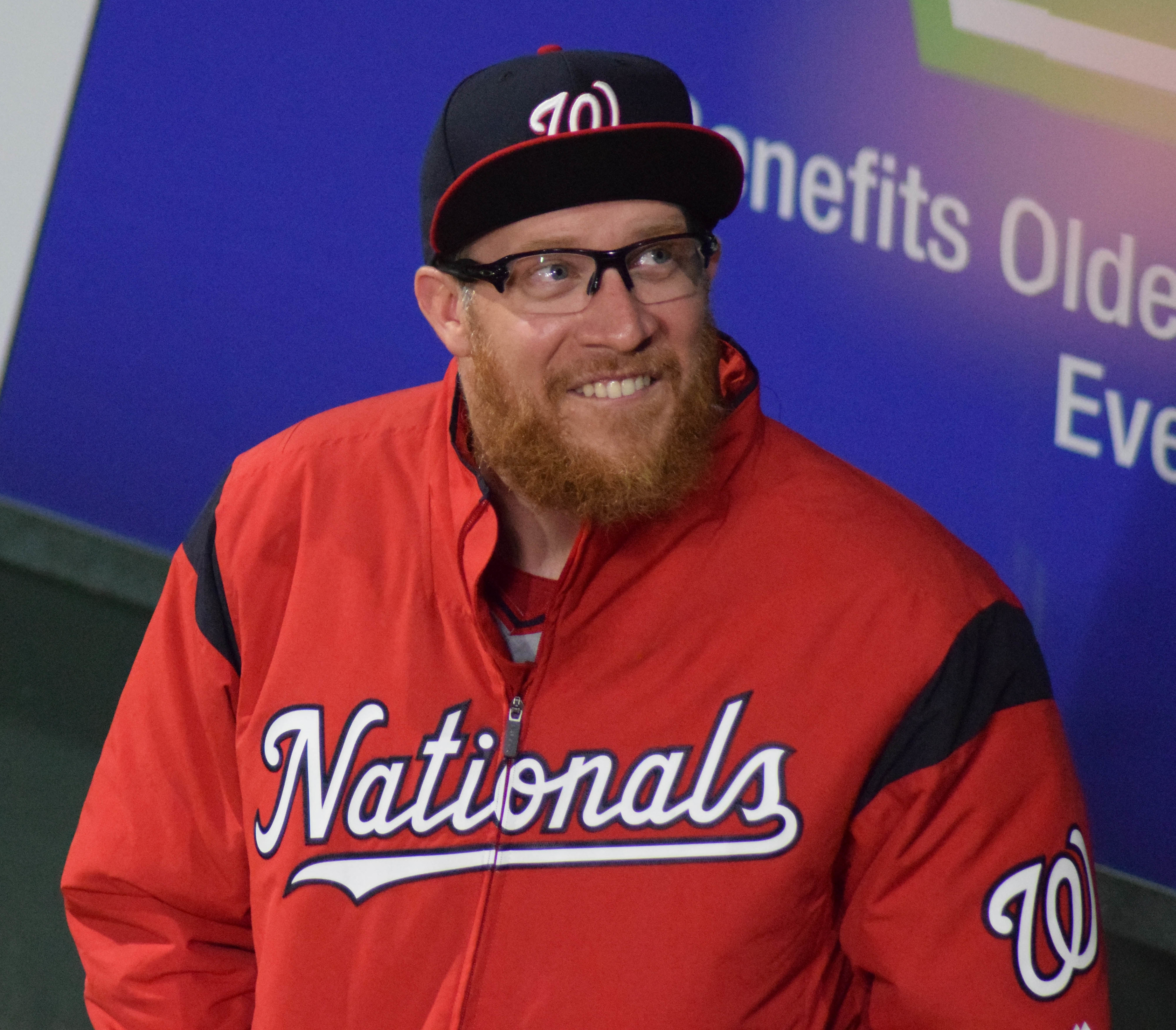 Washington Nationals pitcher Sean Doolittle in the bullpen during a 2019 game at Citizens Bank Park in Philadelphia